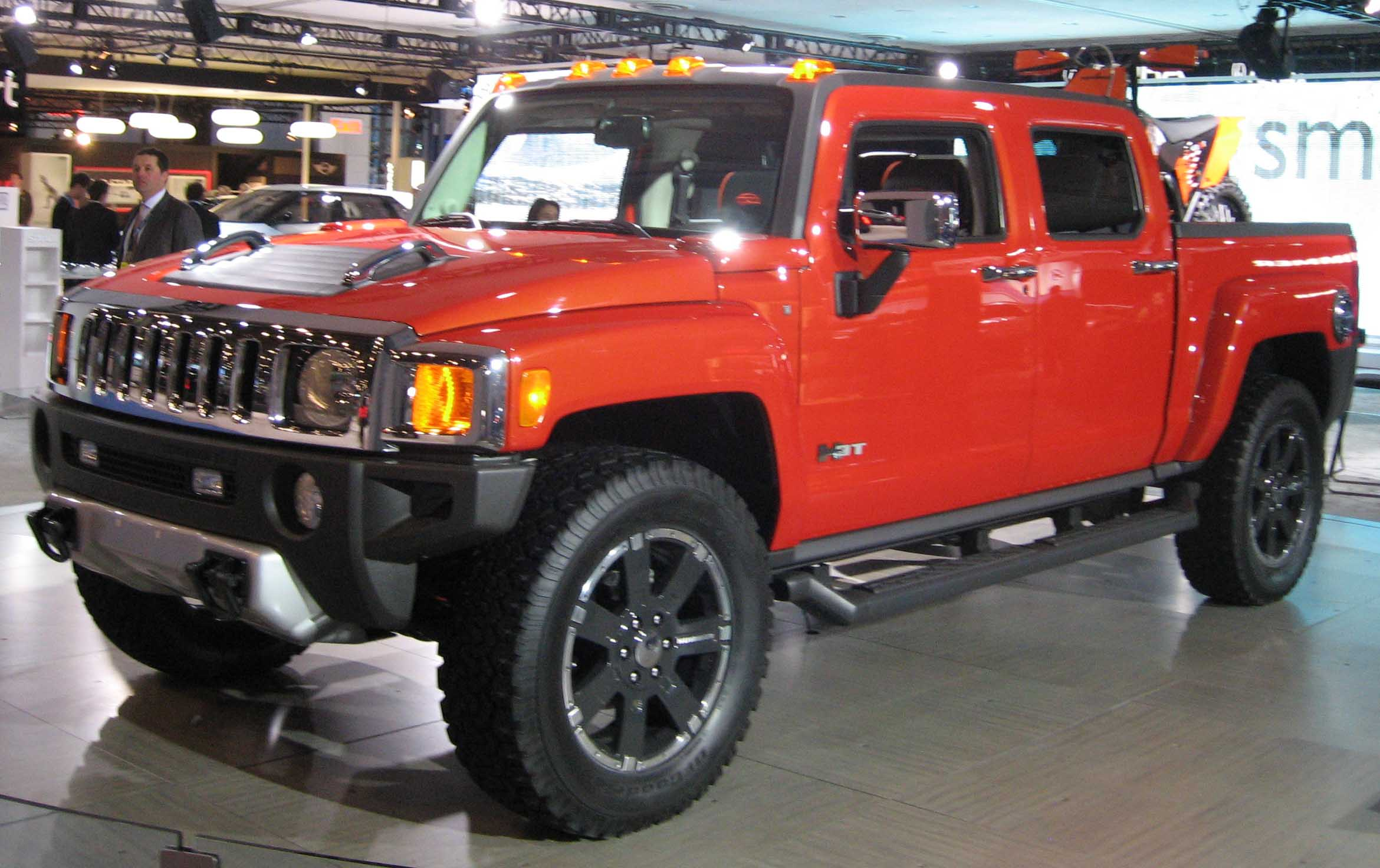 Hummer H3T photographed at the 2008 New York Auto Show.